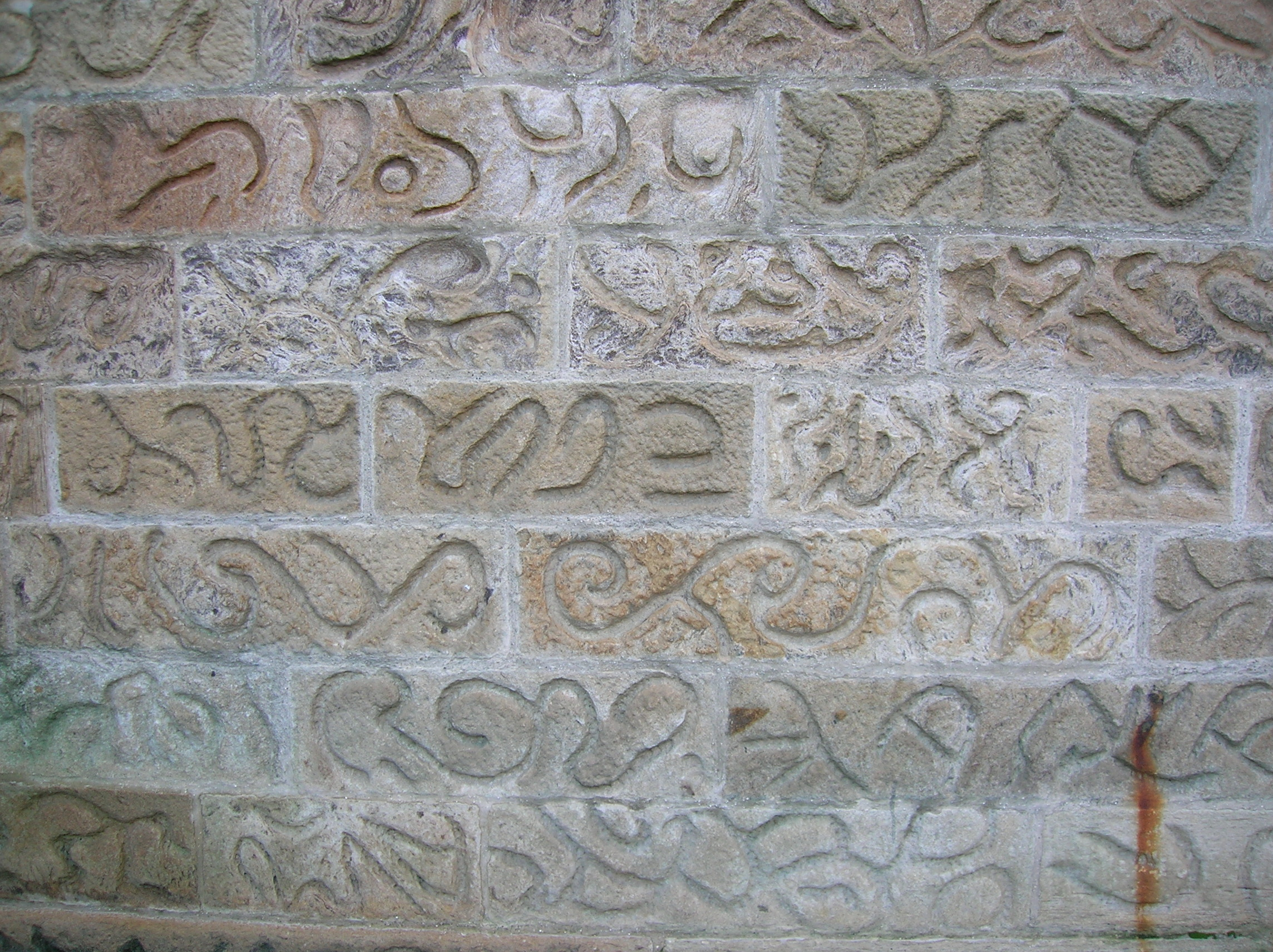 'Arabic writing' style ashlar carving on stone